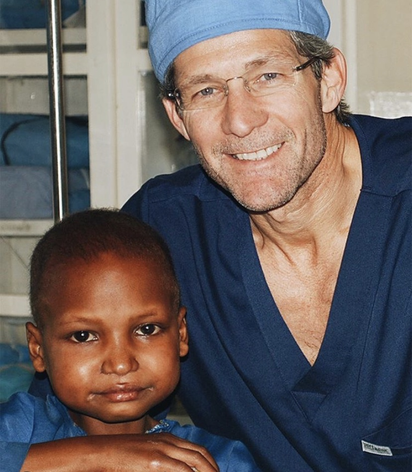 Paul Osteen with patient in Kenya